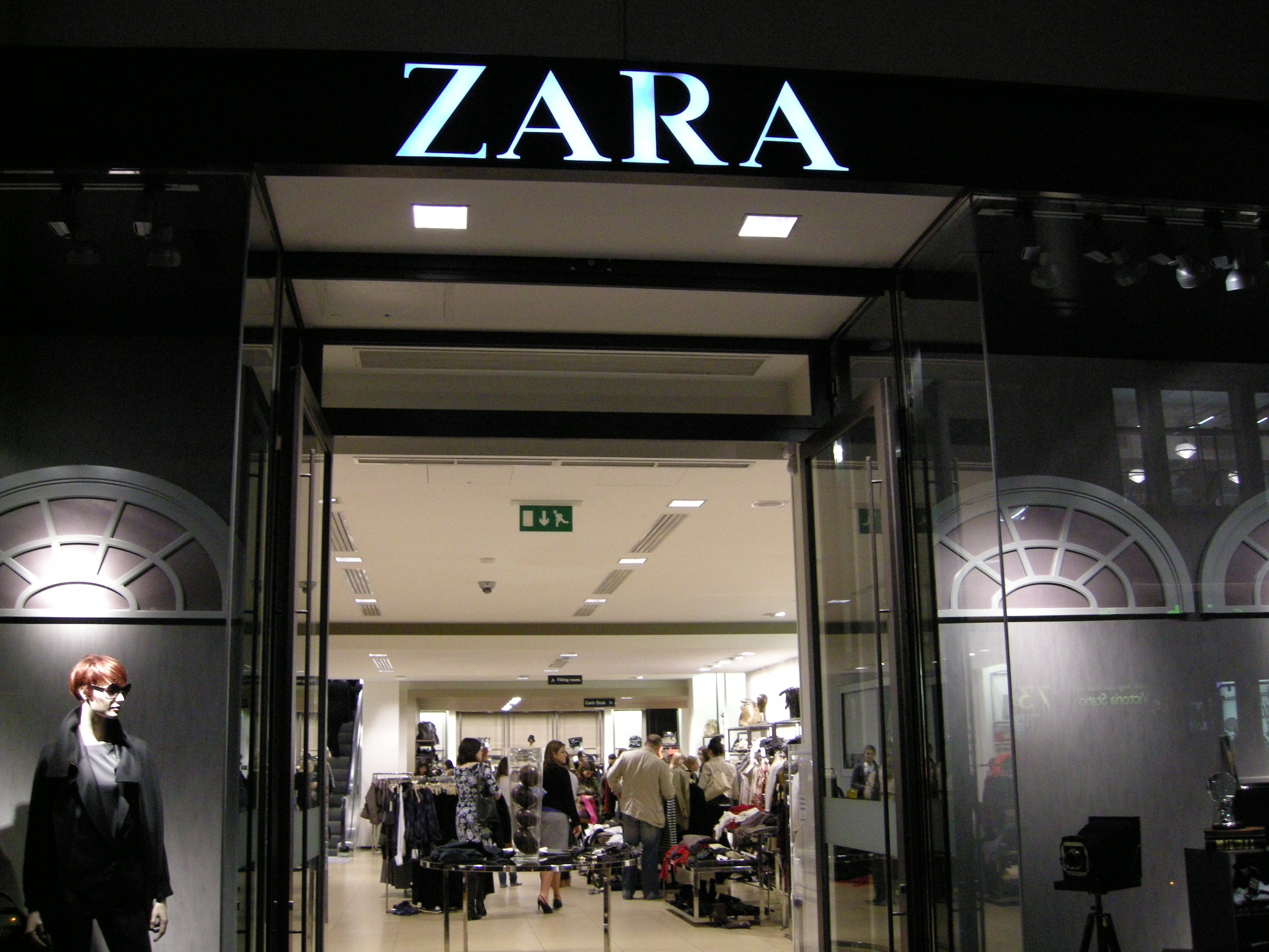 Zara storefront in London, UK.